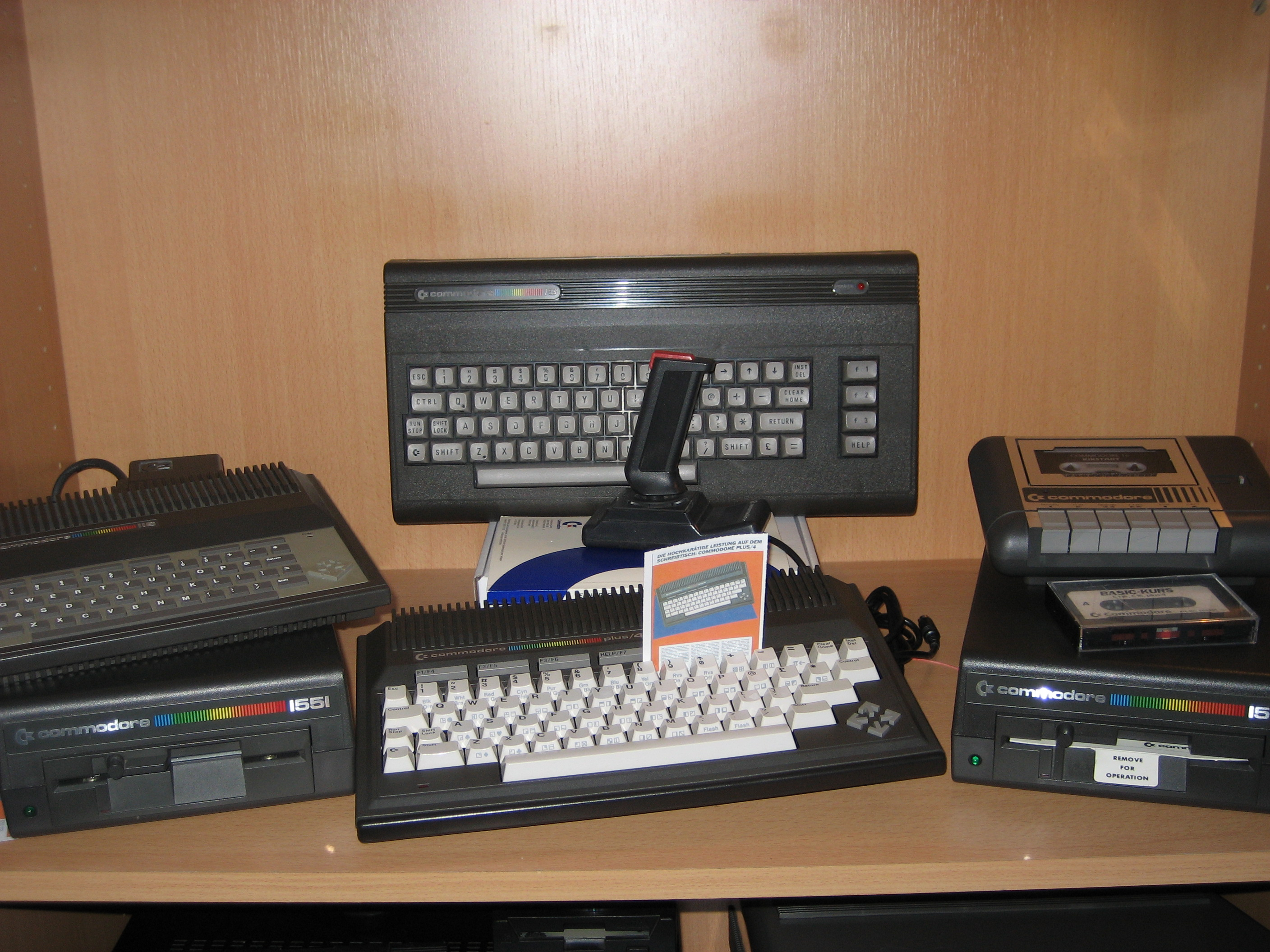 Commodore C16 / C116 / Plus 4 with equipment